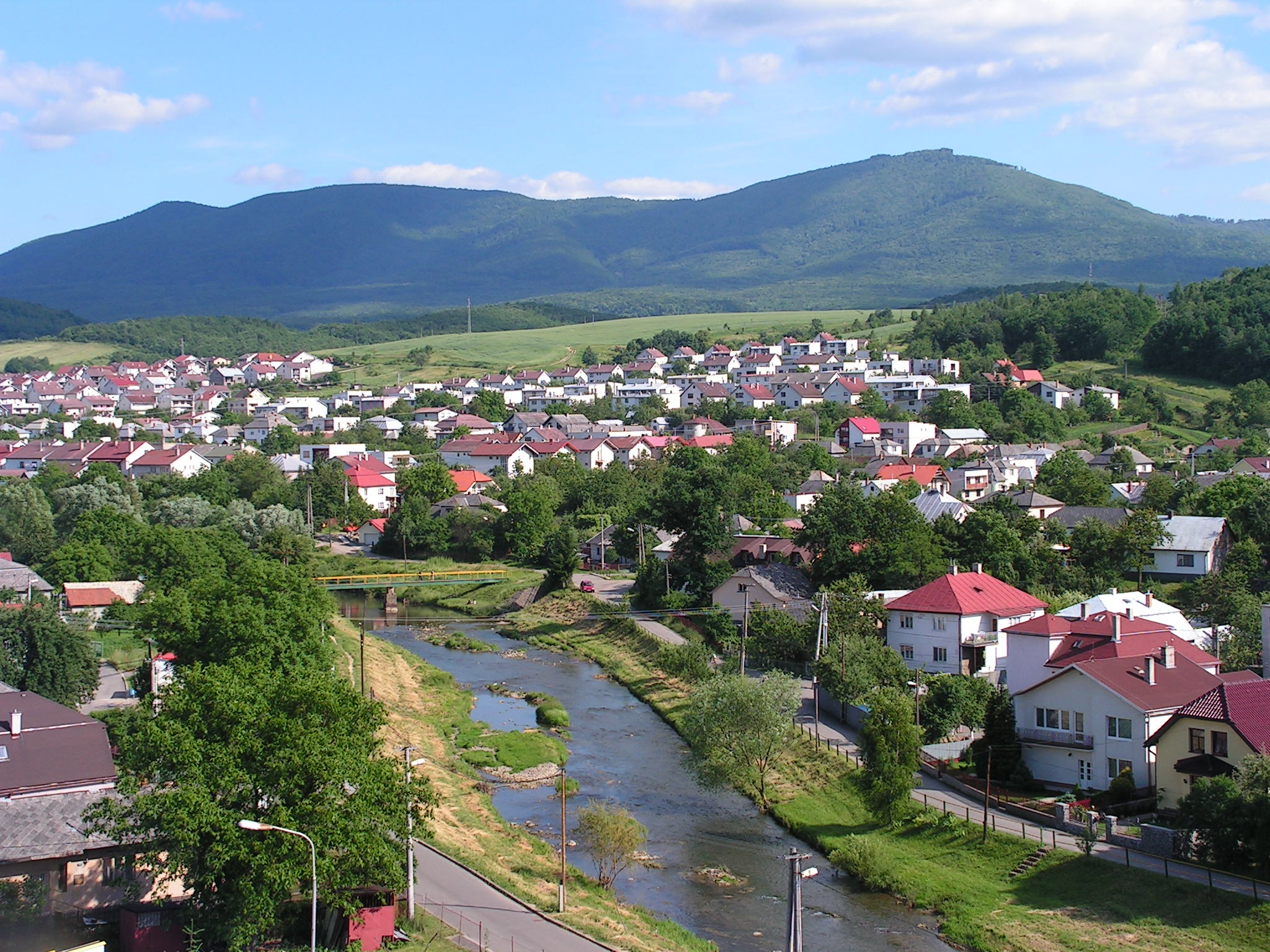 Snina Cirocha river Panorama of Vihorlat mont Sninský kameň (right)